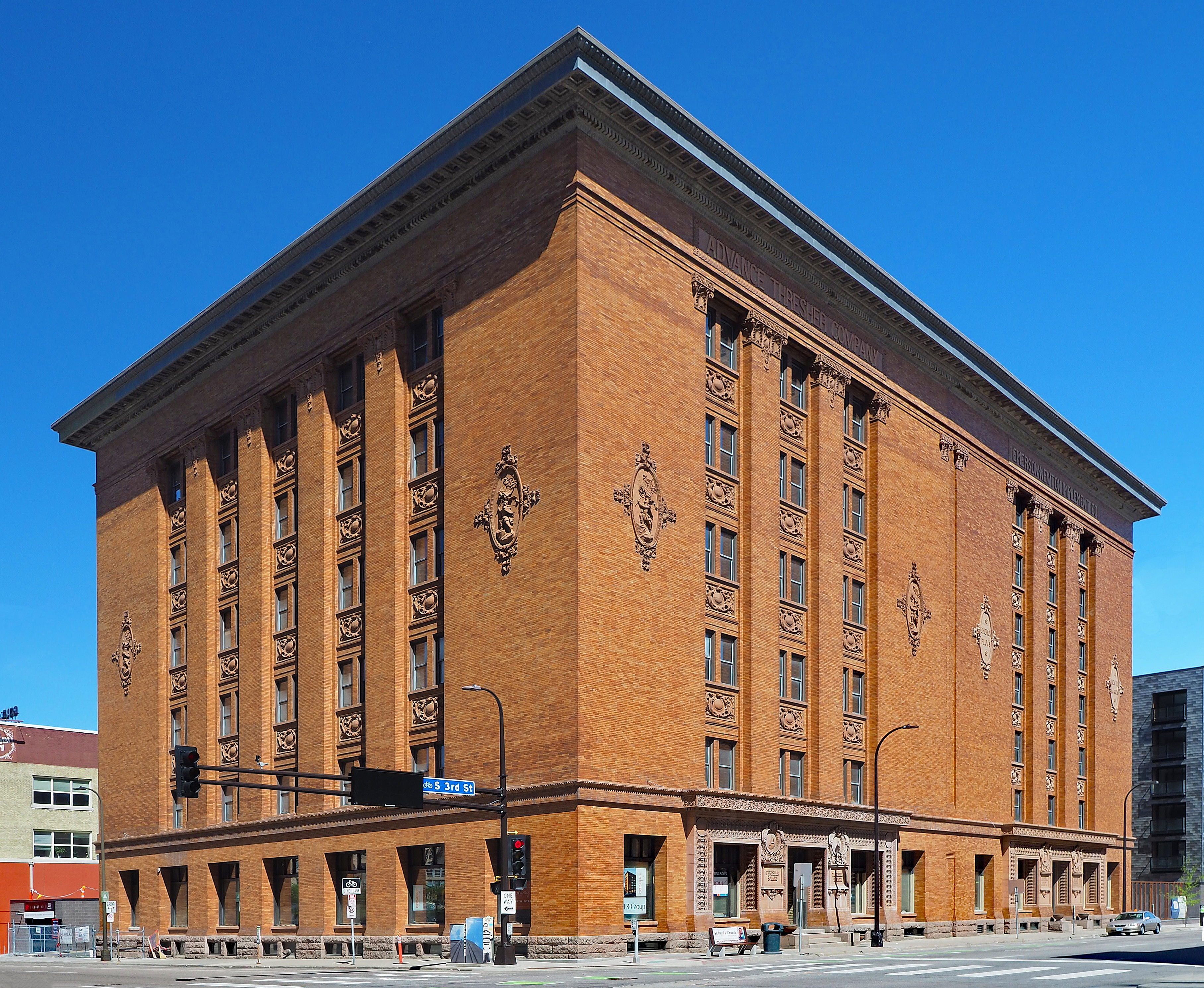 Advance Thresher/Emerson-Newton Implement Company Buildings, 700–704 S 3rd St, Minneapolis, Minnesota, USA. Viewed from the west.